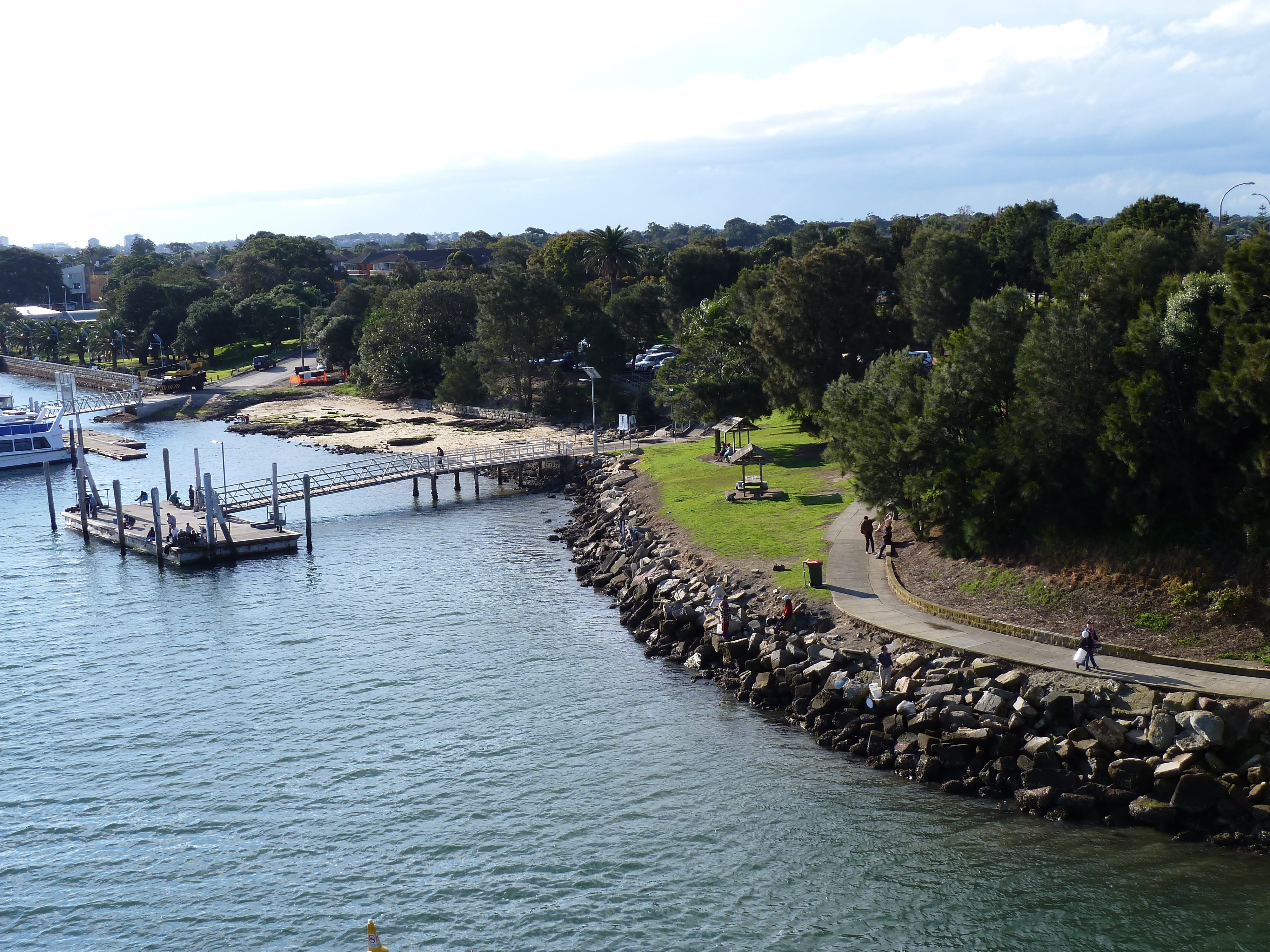 Sans Souci, fron Captain Cook Bridge, New South Wales, Australia.